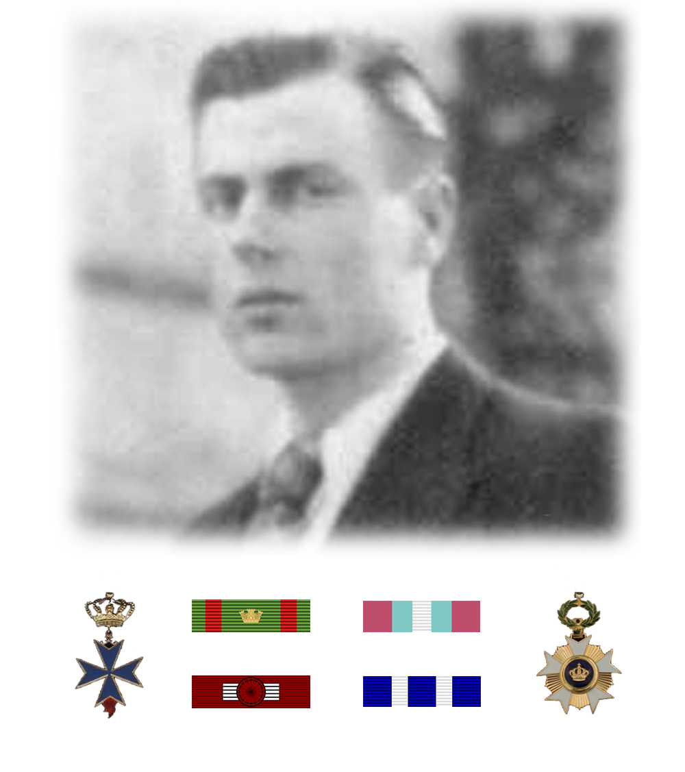 Picture from family's archive